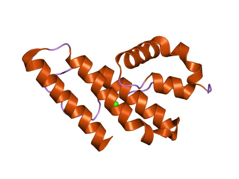 Cartoon representation of the molecular structure of protein registered with 1kp4 code.